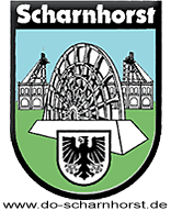 Coat of arms of Dortmund-Alt-Scharnhorst, Germany